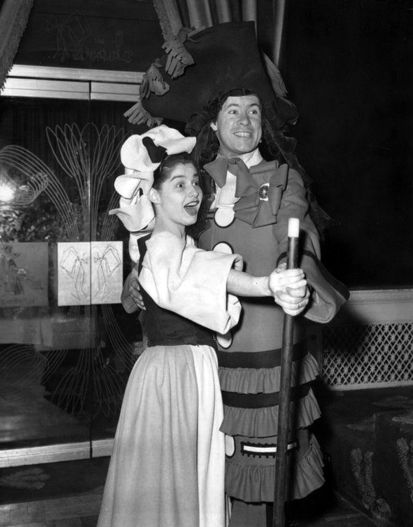 Photo of Carol Lawrence and George Smiley from the play New Faces of 1952. The actress and actor, clad in their costumes from the "Restoration" segment, take their performance "on the road" into Chicago's Ambassador East Hotel.